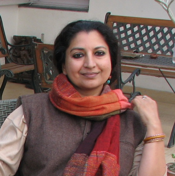 Geetanjali Shree at Golf Links, New Delhi